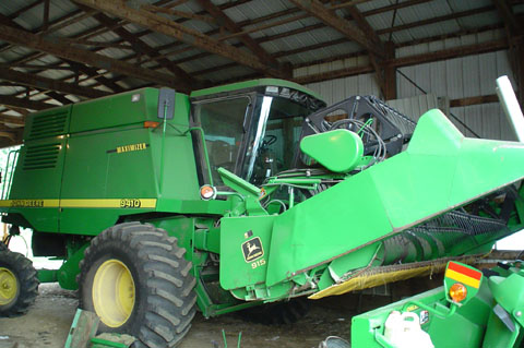 A 9410 John Deere Combine harvester that belongs to my Dad is shown here. As shown in this photo, it is currently set up to combine oats. There is another head that combines corn that we have. I took this photo in July of 2004.